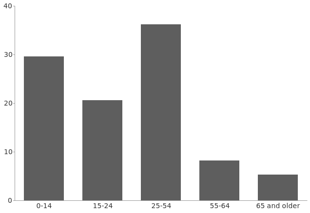 Population Distribution of Tuvalu by Age Group (2014) Created using . Update the visualization here.